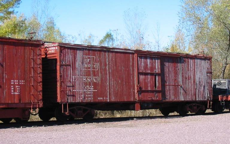 Duluth box car number 18052 on display at the Mid-Continent Railway Museum in North Freedom. Photo by Sean Lamb (User:Slambo), October 10 2004